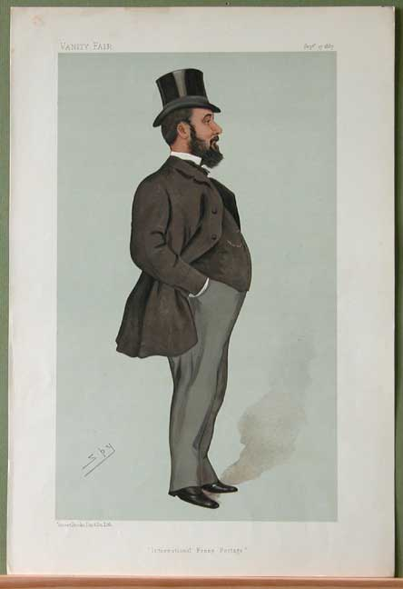 Statesmen No.528: Caricature of Mr John Henniker Heaton MP. Caption reads: "International Penny Postage"